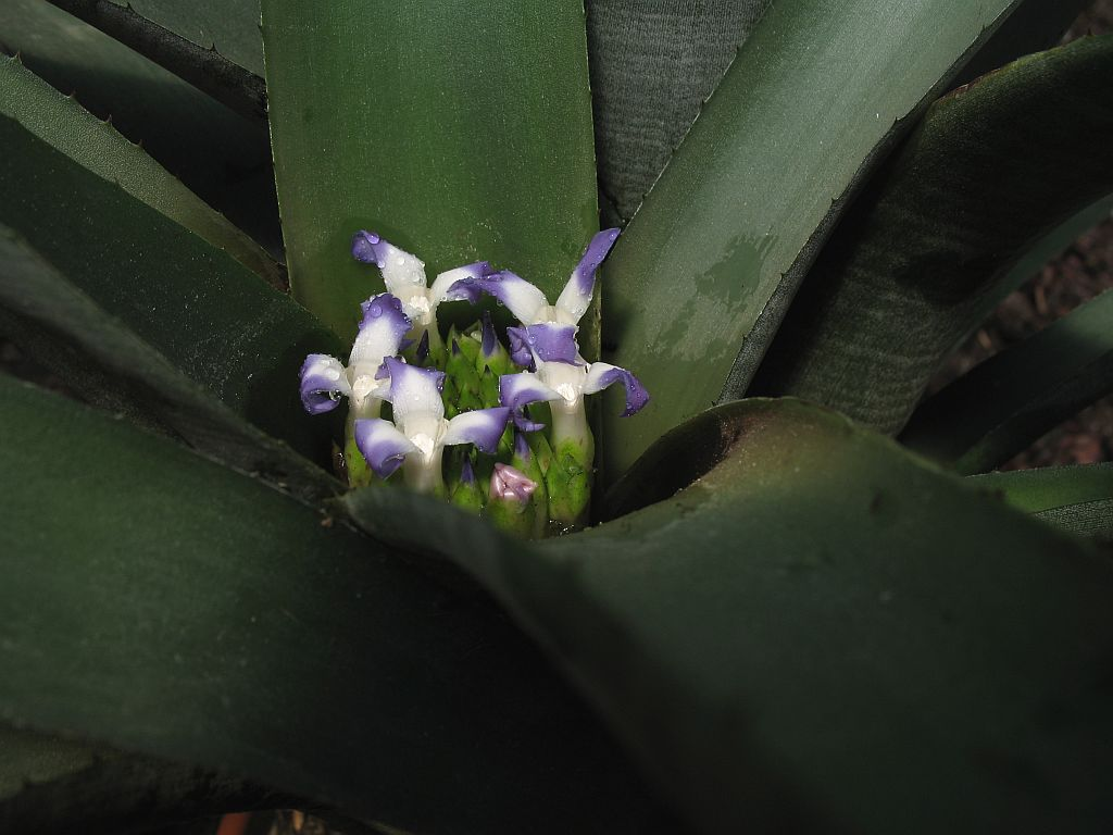 Neoregelia angustibracteolata in cultivation at the Botanical Garden of Heidelberg, Germany.